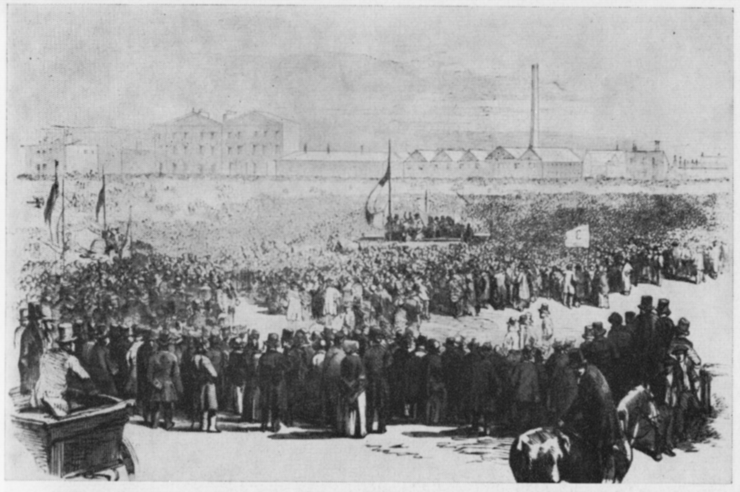 painting of a chartist meeting